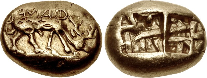 IONIA, Ephesos. Phanes. Circa 625-600 BC. EL Trite (14mm, 4.67 g). ΦANEOS (in retrograde archaic Greek), stag grazing right, its dappled coat indicated by indentations on the body / Two incuse punches, each with raised intersecting lines.